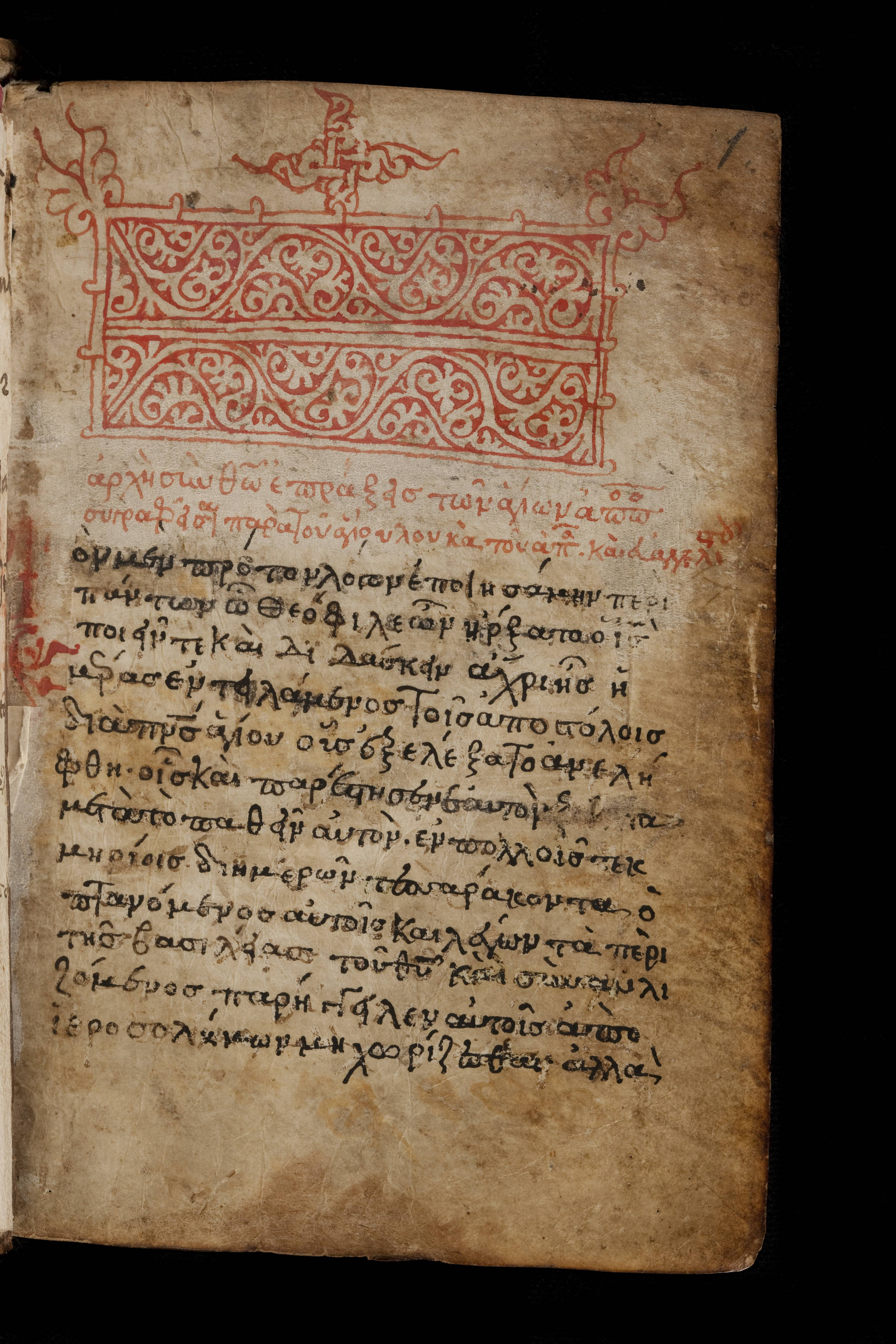 Minuscule 2816 (Gregory-Aland), manuscript of the New Testament from the 15th century; the beginning of the Acts of the Apostles